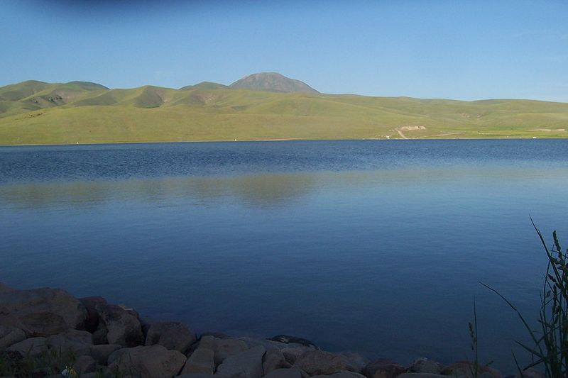 The most beautiful dam in country of Marand is earthen dam of Benab